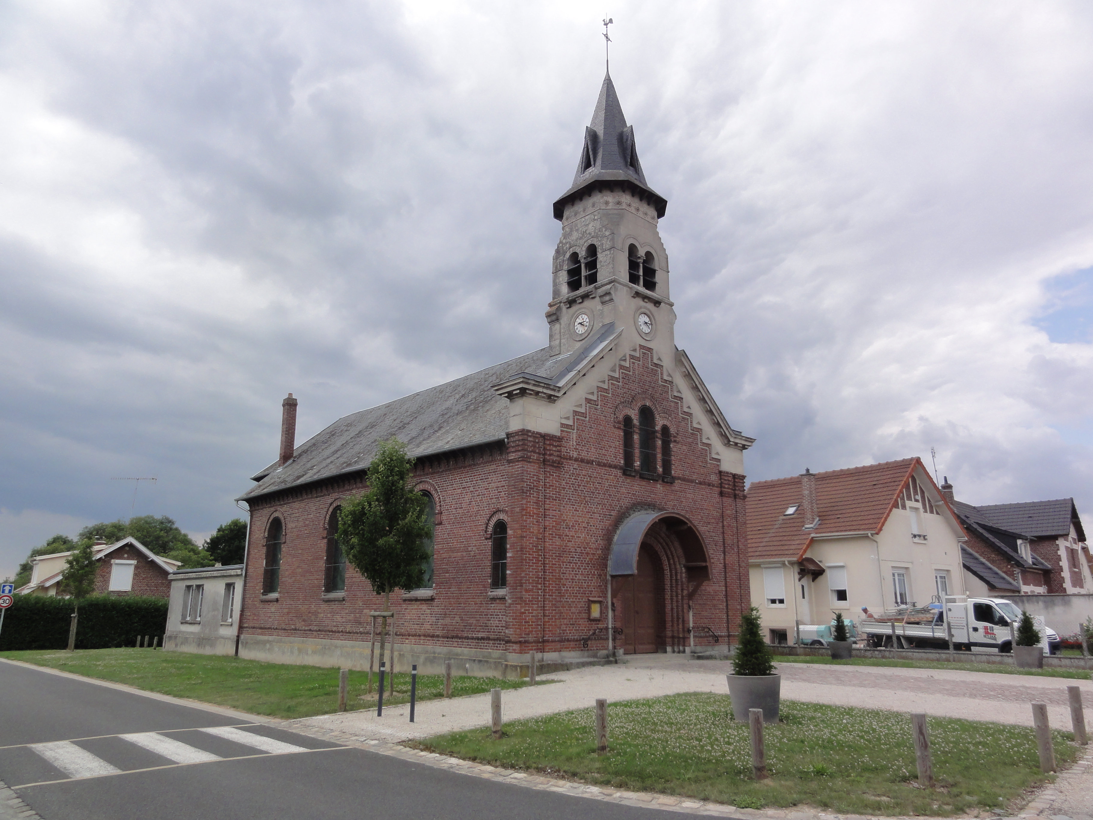 Autreville (Aisne) église Saint-Rémi